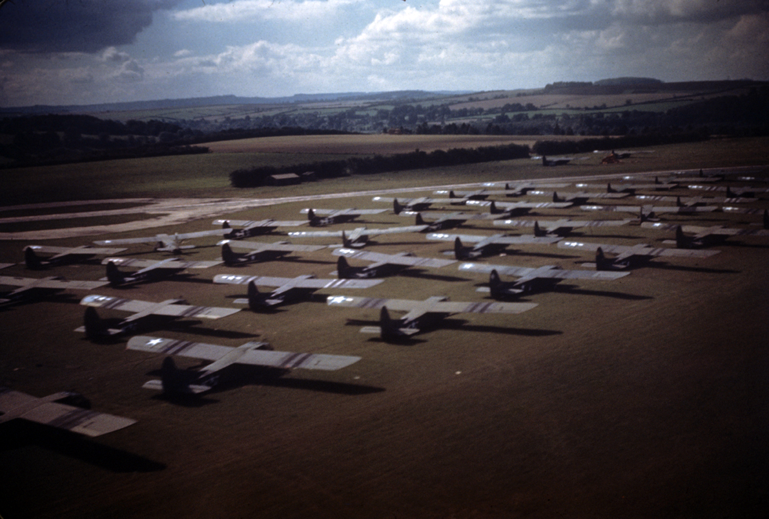 CG-4a Gliders of the 442d Troop Carrier Group at Chilbolton airfield just before Operation Market Garden.